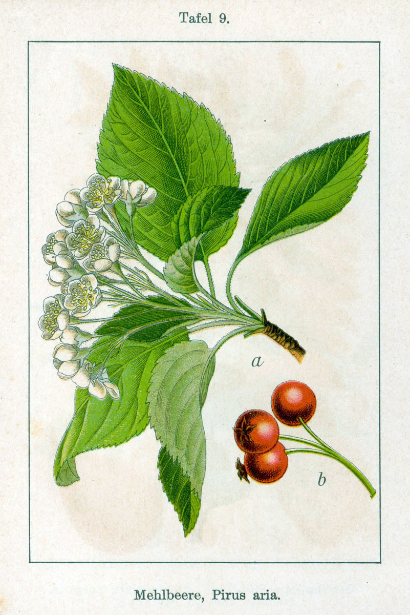 FloraWeb.de: Gewöhnliche Mehlbeere, Sorbus aria (L.) Crantz s. str. : Echte Mehlbeere, Sorbus aria subsp. aria, syn. Pyrus aria Moench Original Description Mehlbeere, Pirus aria